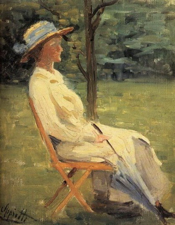 In countryside, circa 1900